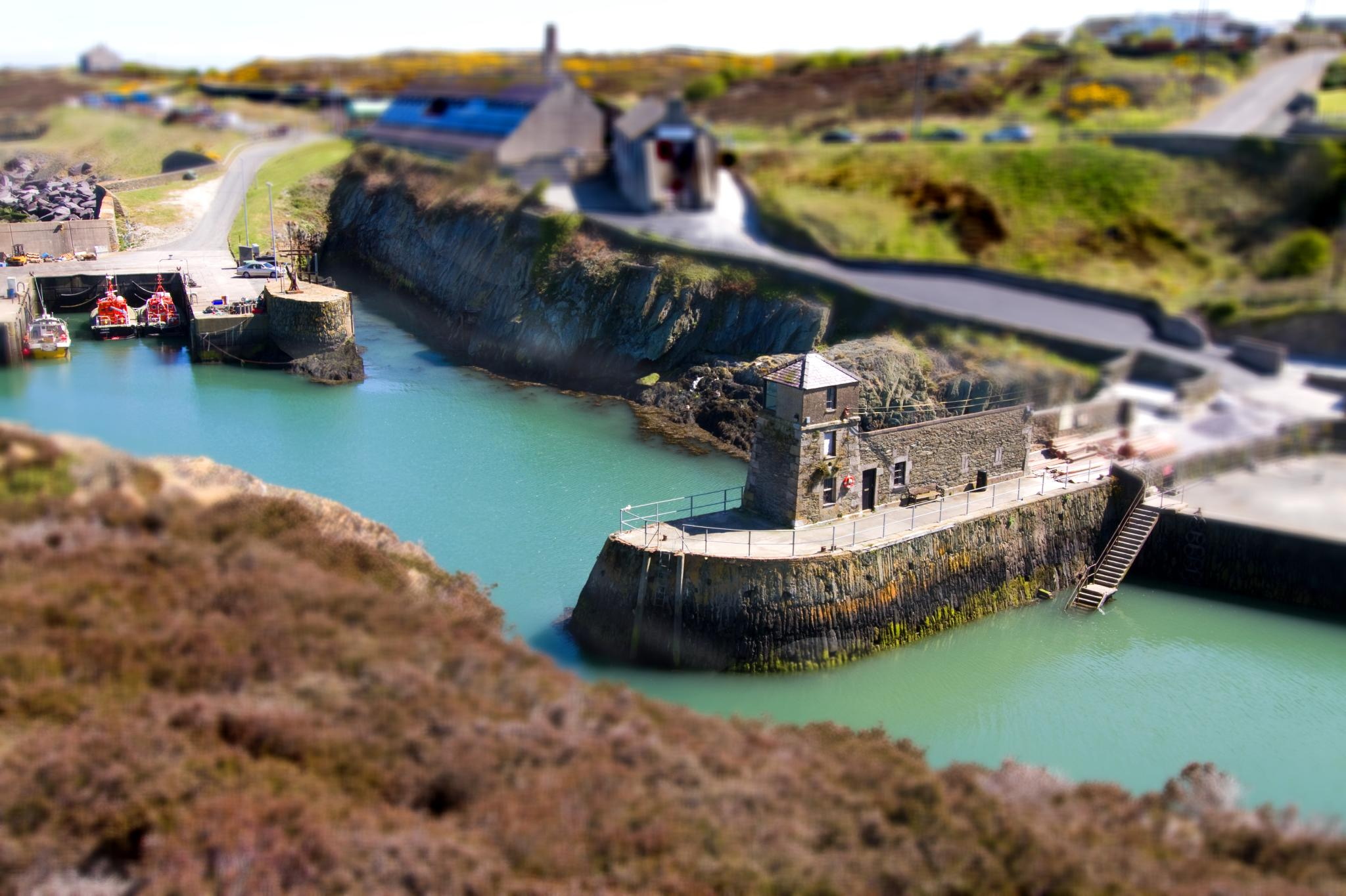 Amlwch Lighthouse, Amlwch Old Harbour, Amlwch Port in northwestern Anglesey (Ynys Môn), Wales